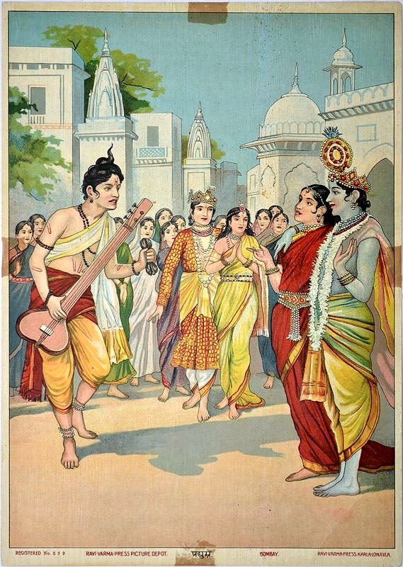 Pradyuman Early Lithograph by Ravi Varma Press, 14 x 10 inches Code No: 10444 0 View to Scale Overview Specifications Contact Us Early Lithograph by Ravi Varma Press Pradyuman 14 x 10 inches | 35.5 x 25.4 cms